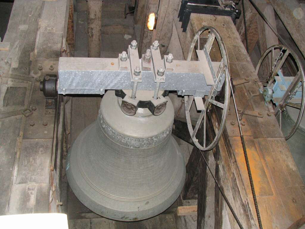 Bell of Cahtedral of Turku